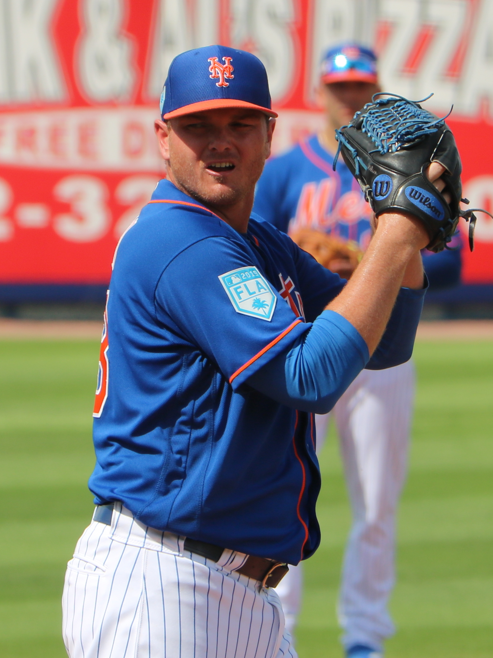 Justin Wilson pitching for the Mets, March 2, 2019